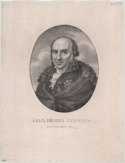 Lithograph portrait of Count Feliks Lubienski